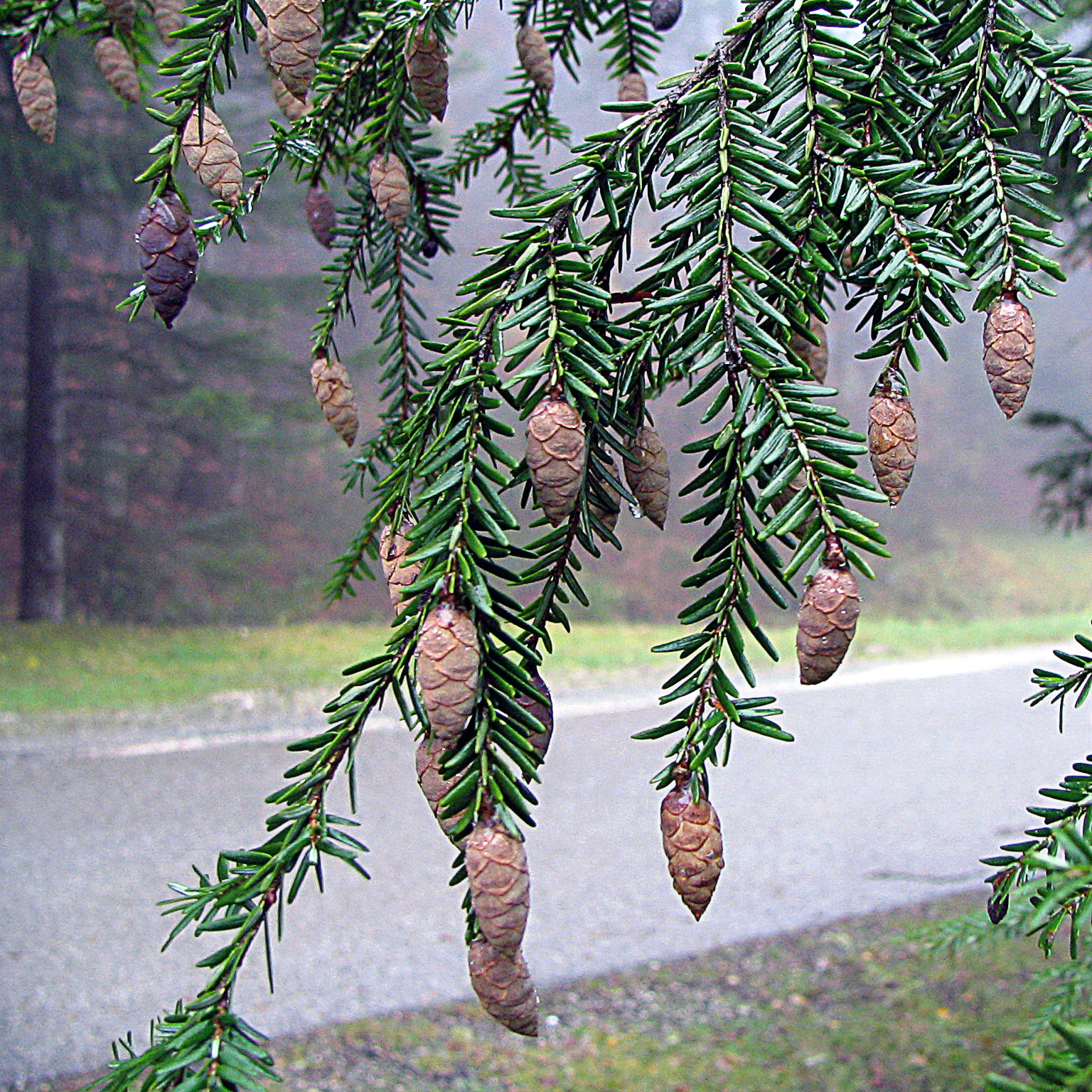 Tsuga canadensis branches